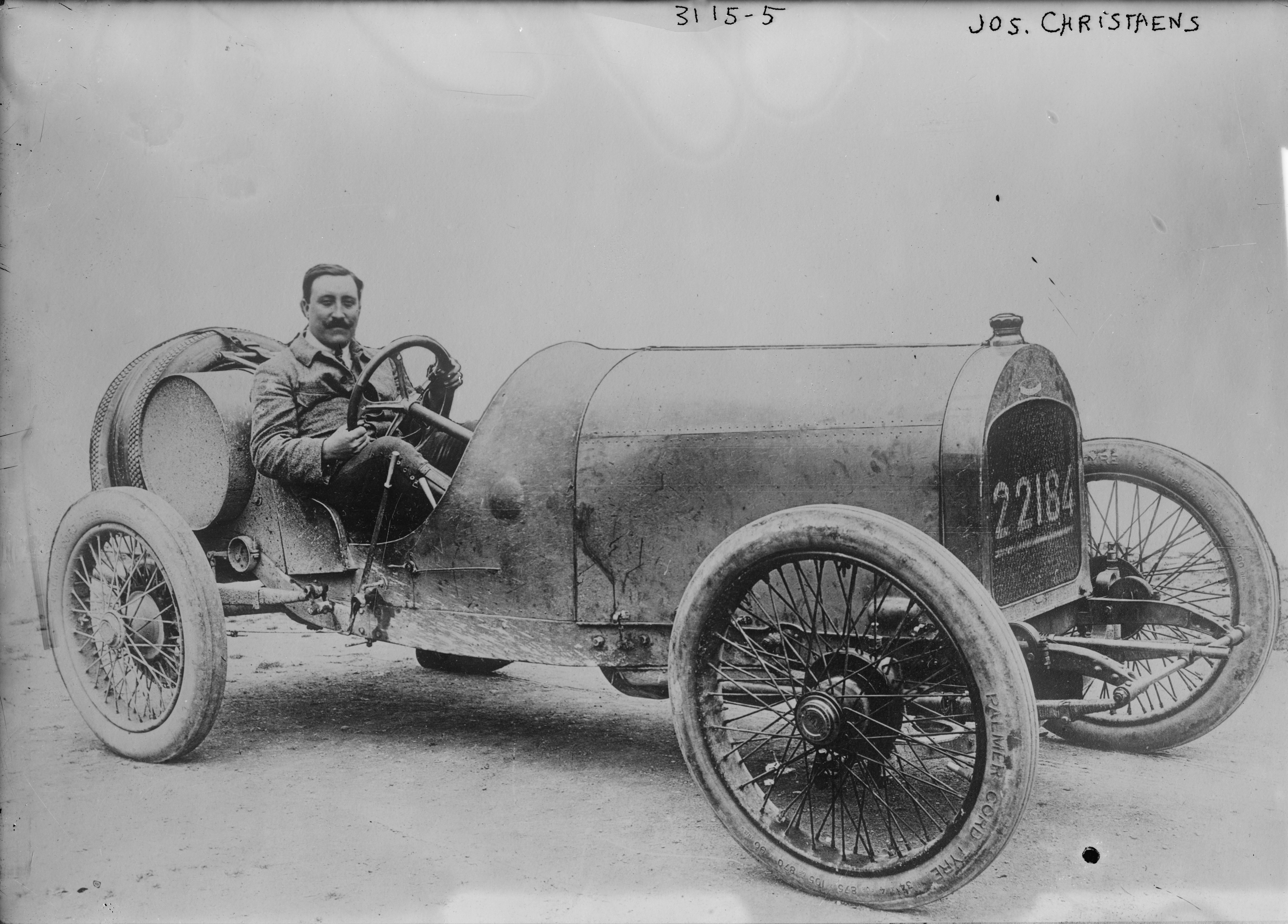 Joseph Christaens in an Excelsior at the 1914 Indianapolis 500 Bain News Service,, publisher. Jos. Christaens [between ca. 1910 and ca. 1915] 1 negative : glass ; 5 x 7 in. or smaller. Notes: Title from unverified data provided by the Bain News Service on the negatives or caption cards. Forms part of: George Grantham Bain Collection (Library of Congress). Format: Glass negatives. Repository: Library of Congress, Prints and Photographs Division, Washington, D.C. 20540 USA, General information about the Bain Collection is available at Persistent URL: Call Number: LC-B2- 3115-5